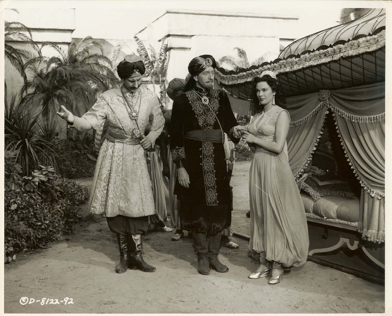 Promotion photo from Siren of Bagdad featuring Hans Conried, Paul Henreid and Patricia Medina